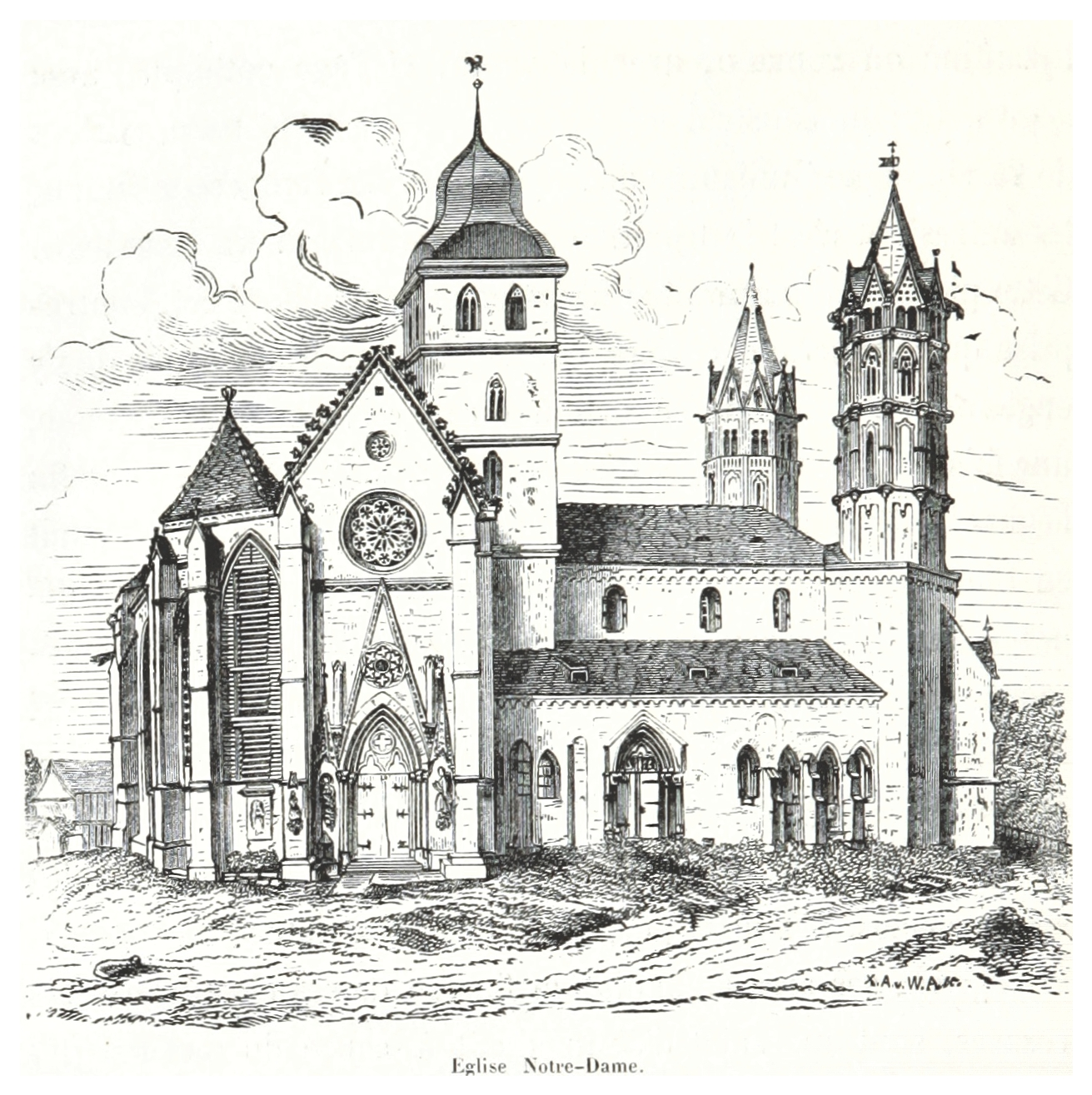 Image extracted from page of 496 Dans la Forêt de Thuringe. Voyage d'étude (1862) by Édouard Humbert. Original held and digitised by the British Library. Copied from Flickr. Note: The colours, contrast and appearance of these illustrations are unlikely to be true to life. They are derived from scanned images that have been enhanced for machine interpretation and have been altered from their originals.